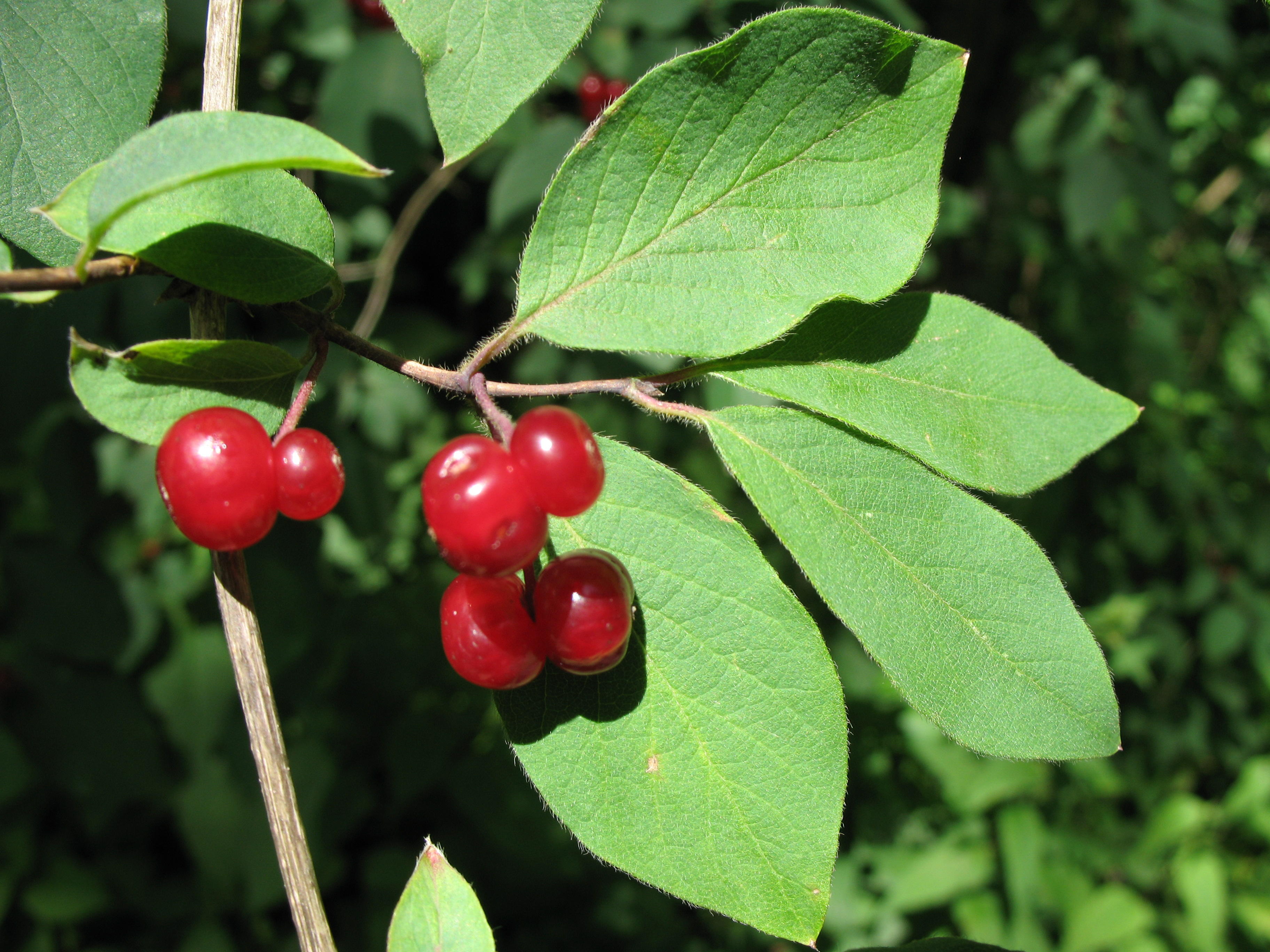 Honeysuckle (Lonicera xylosteum) berries, Obertraun, Austria Lonicera xylosteum